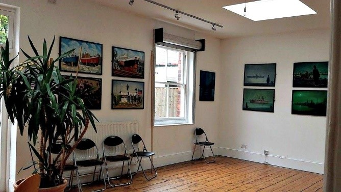 Photograph taken of the exhibition Room